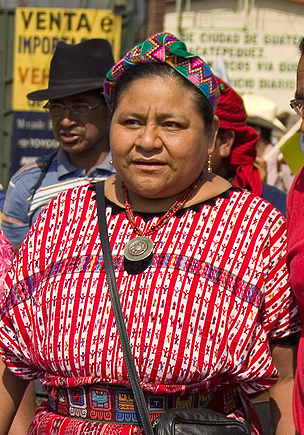 Rigoberta Menchú in the March 2009 march commemorating the anniversary of the signing of the Treaty on Identity and Rights of Indigenous Peoples